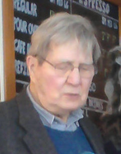 Galway Kinnell, Vermont poet laureate 1989-93, reads his poetry at the Beatnik Party, March 16, 2013 at Grindstone Cafe in Lyndonville, Vermont.